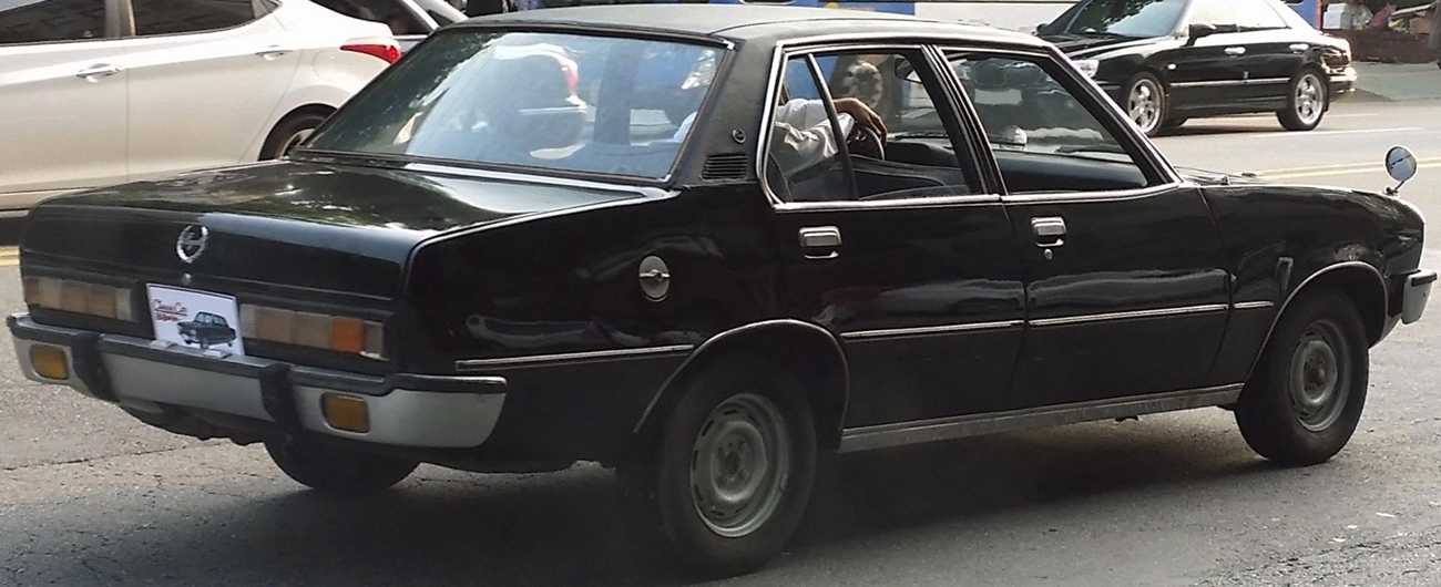 GM Korea Rekord Royale